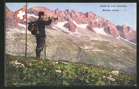 AK Grenzbesetzung 1914, Rufst du mein Vaterland..., schweizer Hornist gibt Signal (front)